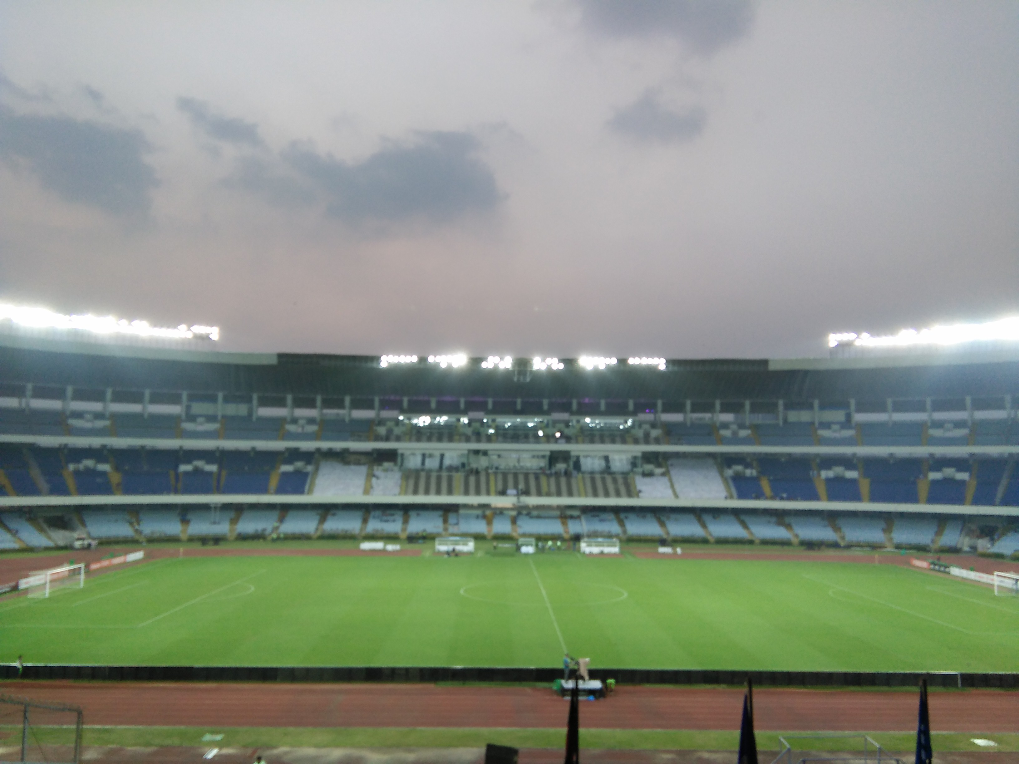 Saltlake stadium before India vs Bangladesh match